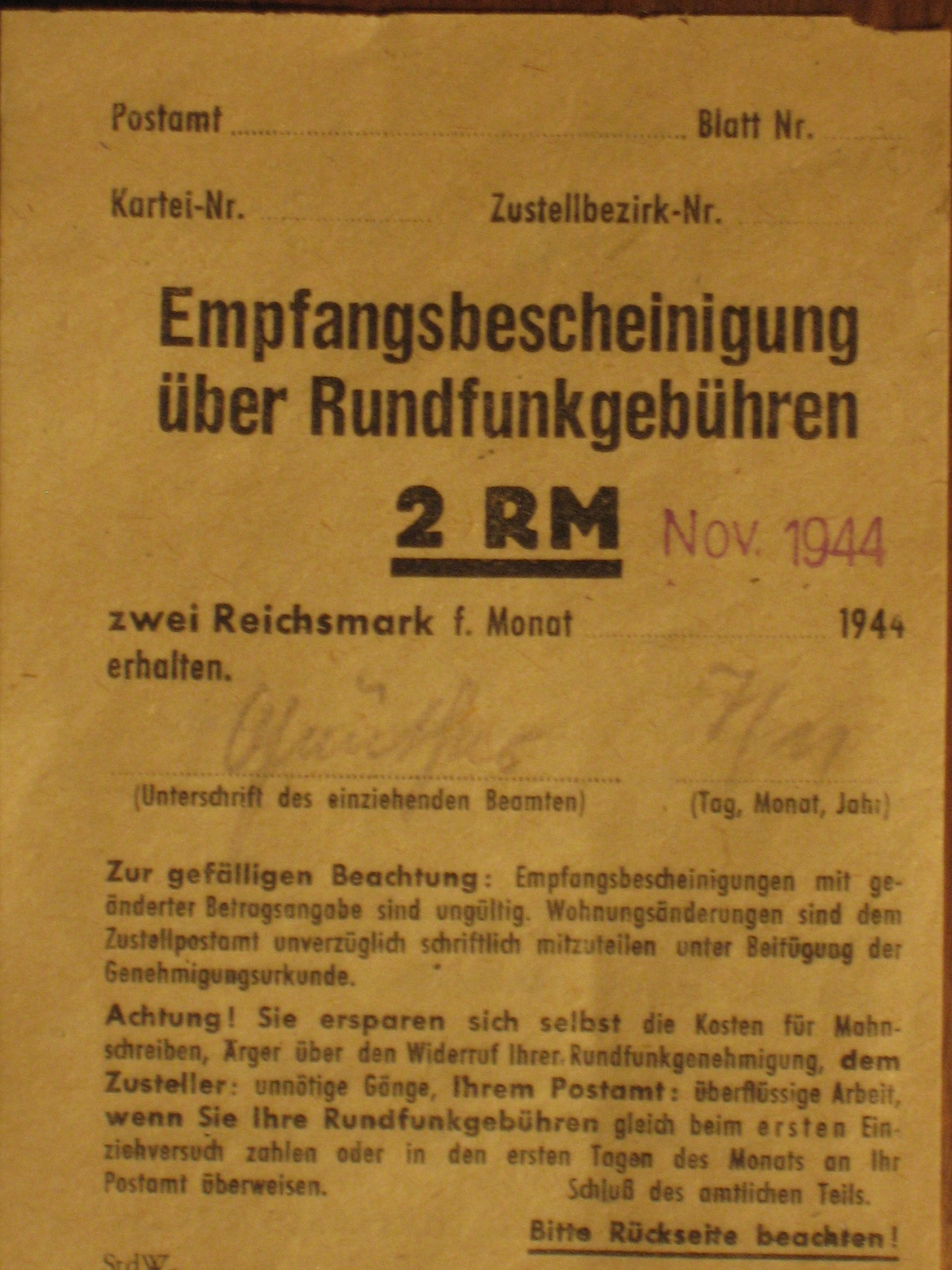 image of a receipt of dues for receiving radio signals from the Radiostations of the German Reich Page 1